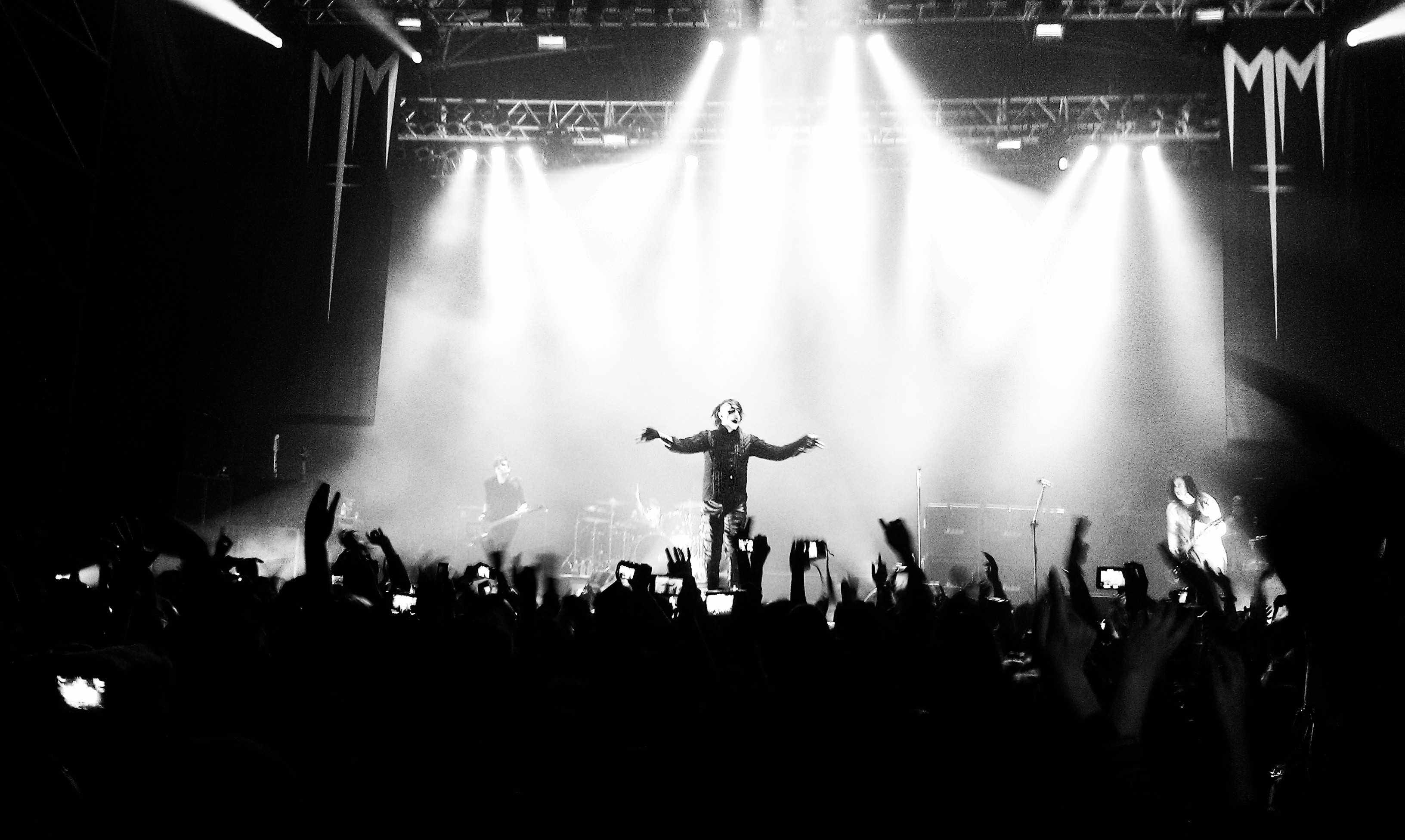 Marilyn Manson live in Australia, 2012